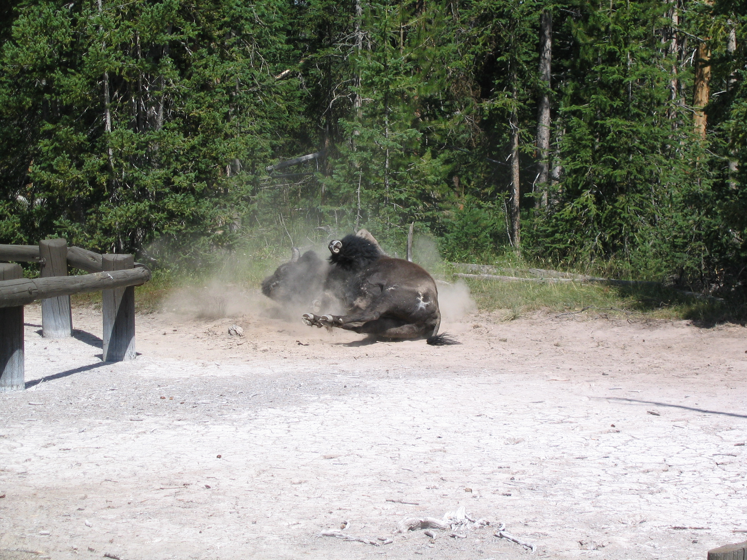 An American Bison taking a dust bath in Yellowstone National Park.Buffalo dustbath